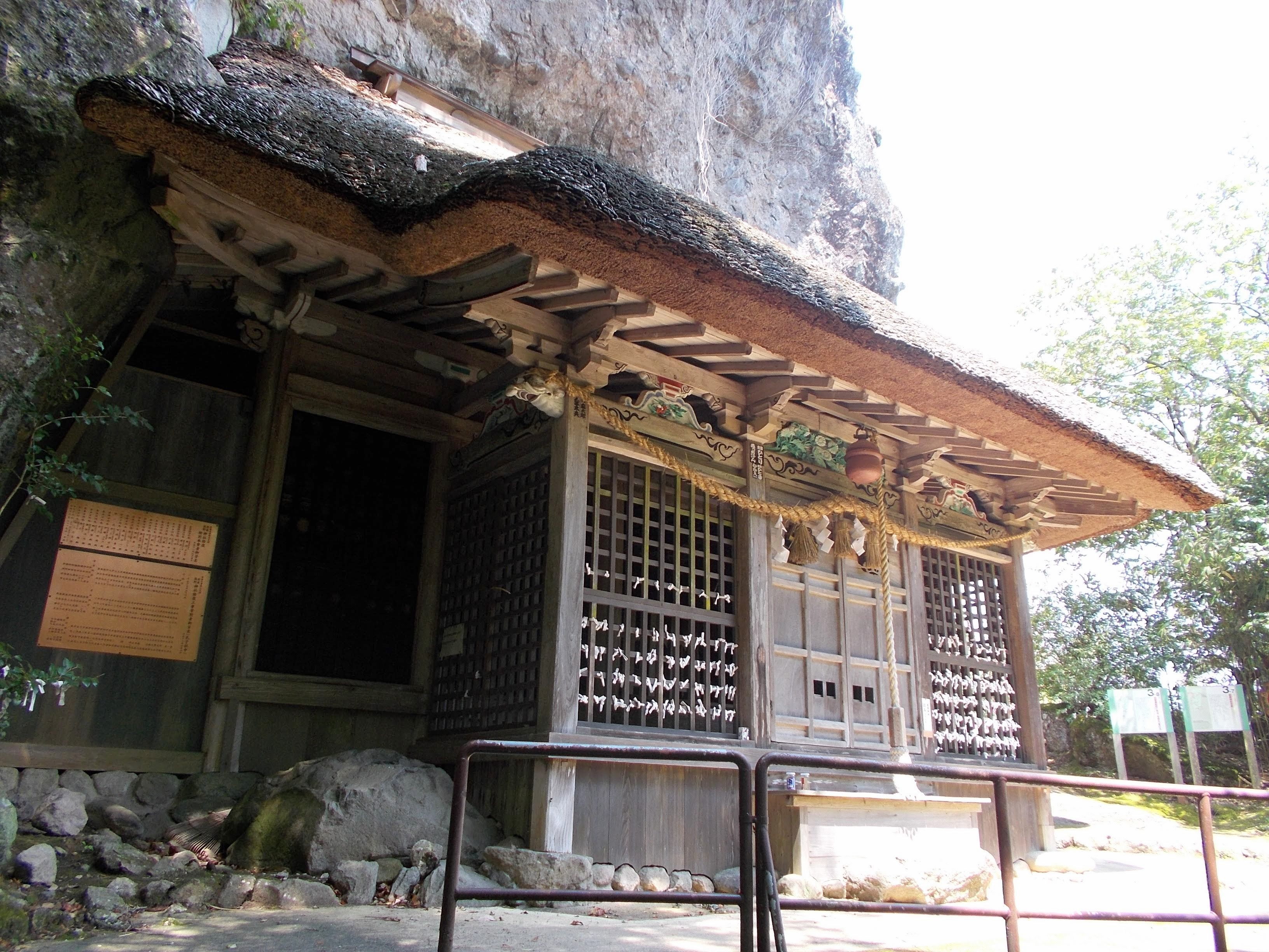 Honden or the main shrine of Iwaya-jinja, Toho, Fukuoka, Japan